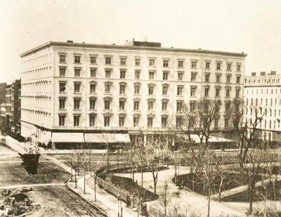 Photograph of the Fifth Avenue Hotel